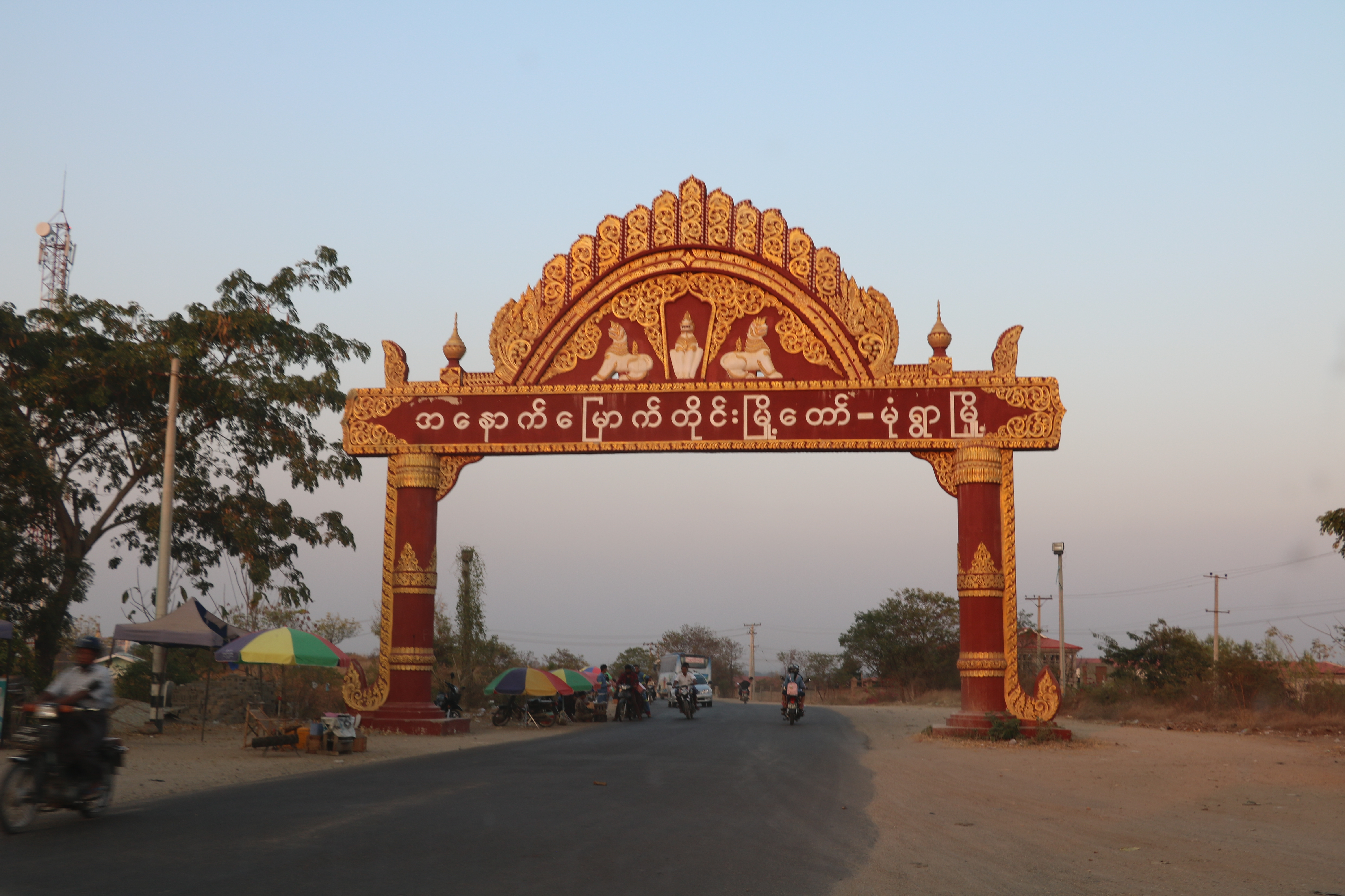 Monywa Signboard